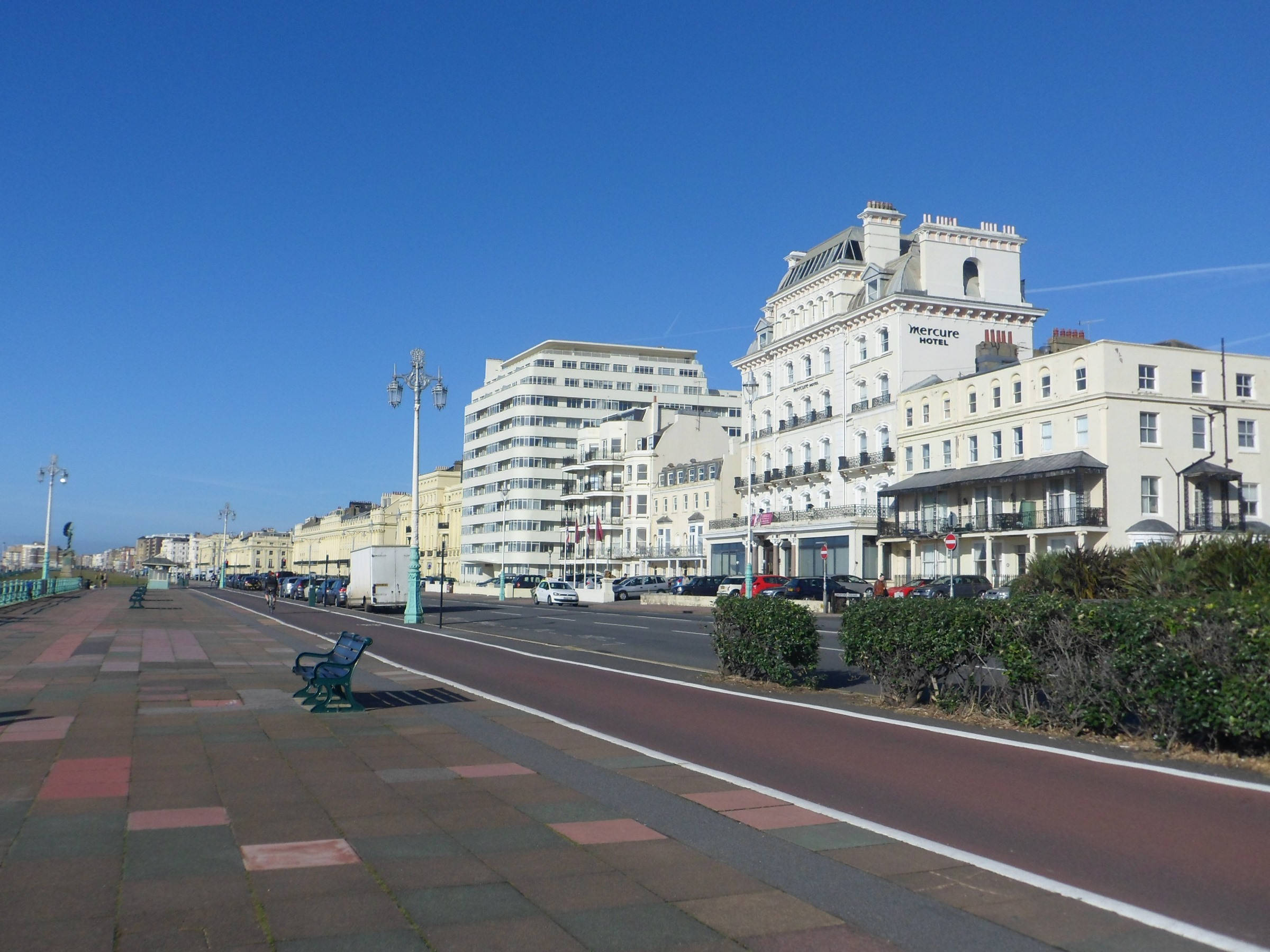 A view of Kings Road, Brighton, City of Brighton and Hove, England, looking northwestwards. Prominent buildings include the Norfolk Hotel, Embassy Court and Brunswick Terrace.